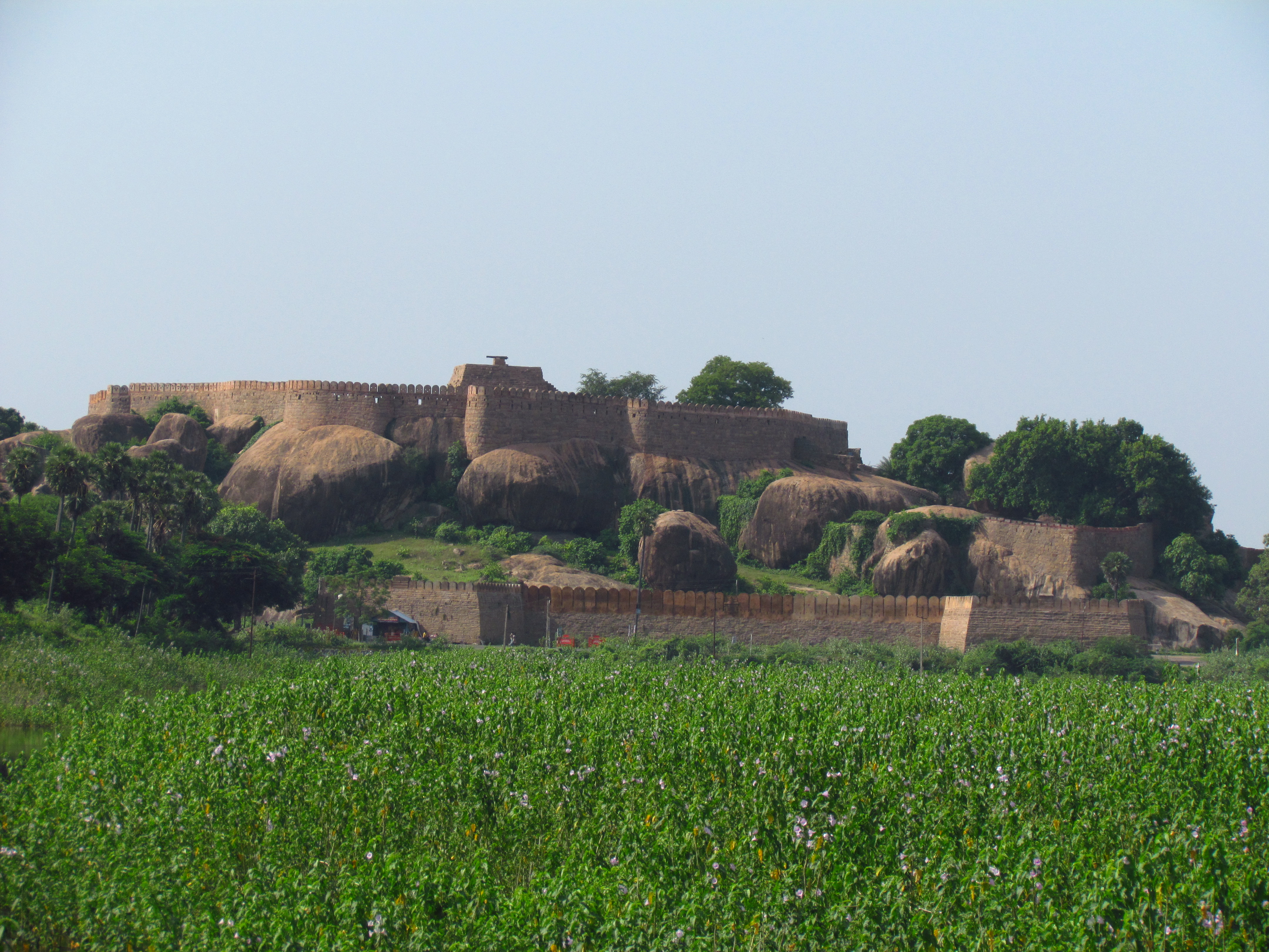 A view of the Thirumayam fort built in the 17th century, as seen from the North lake